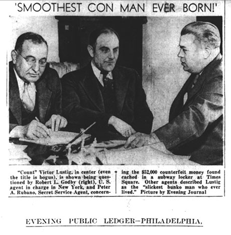 1935 photo of con man Victor Lustig